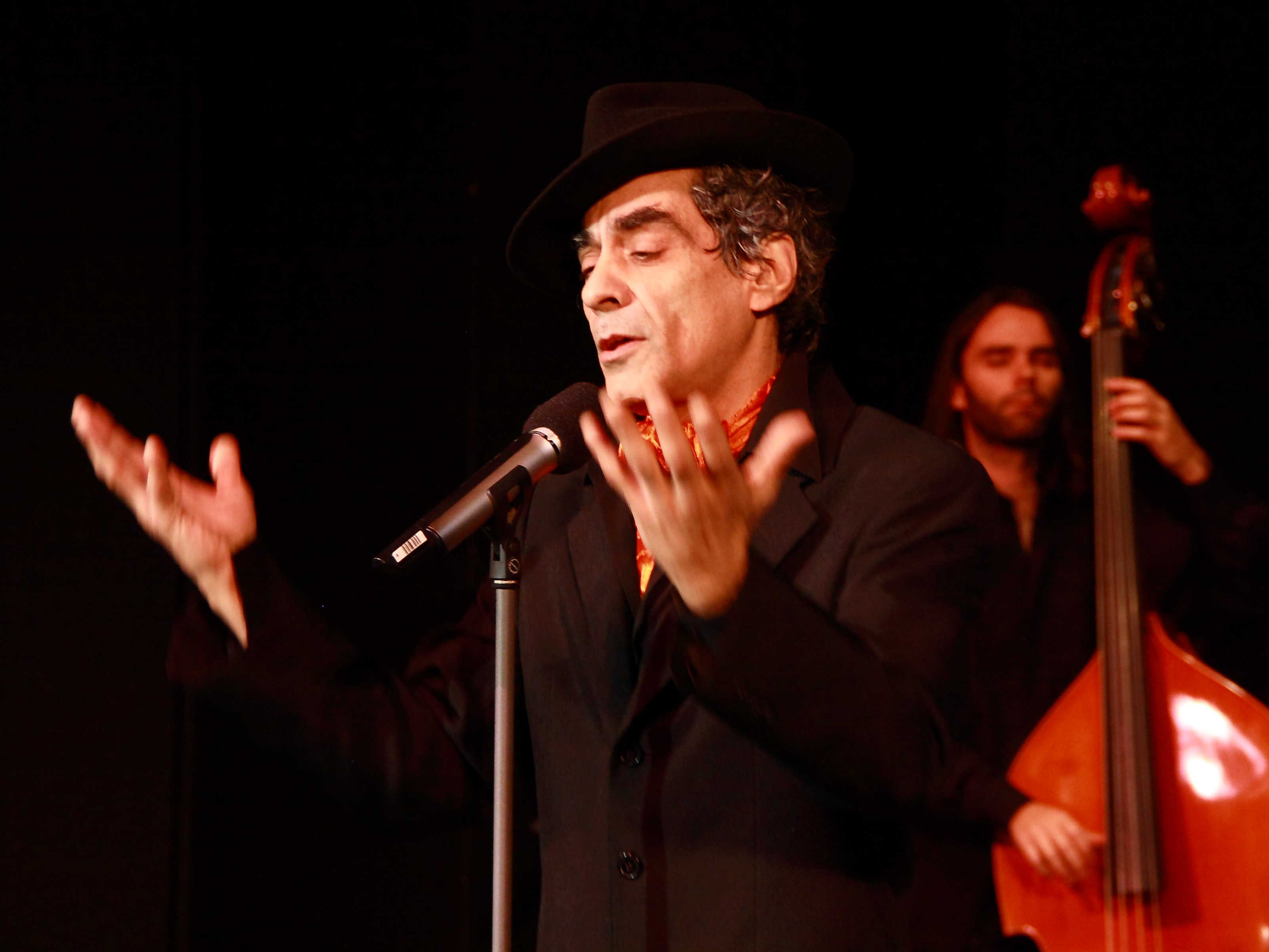 Tangosinger Daniel Melingo at tff-Rudolstadt 2010.